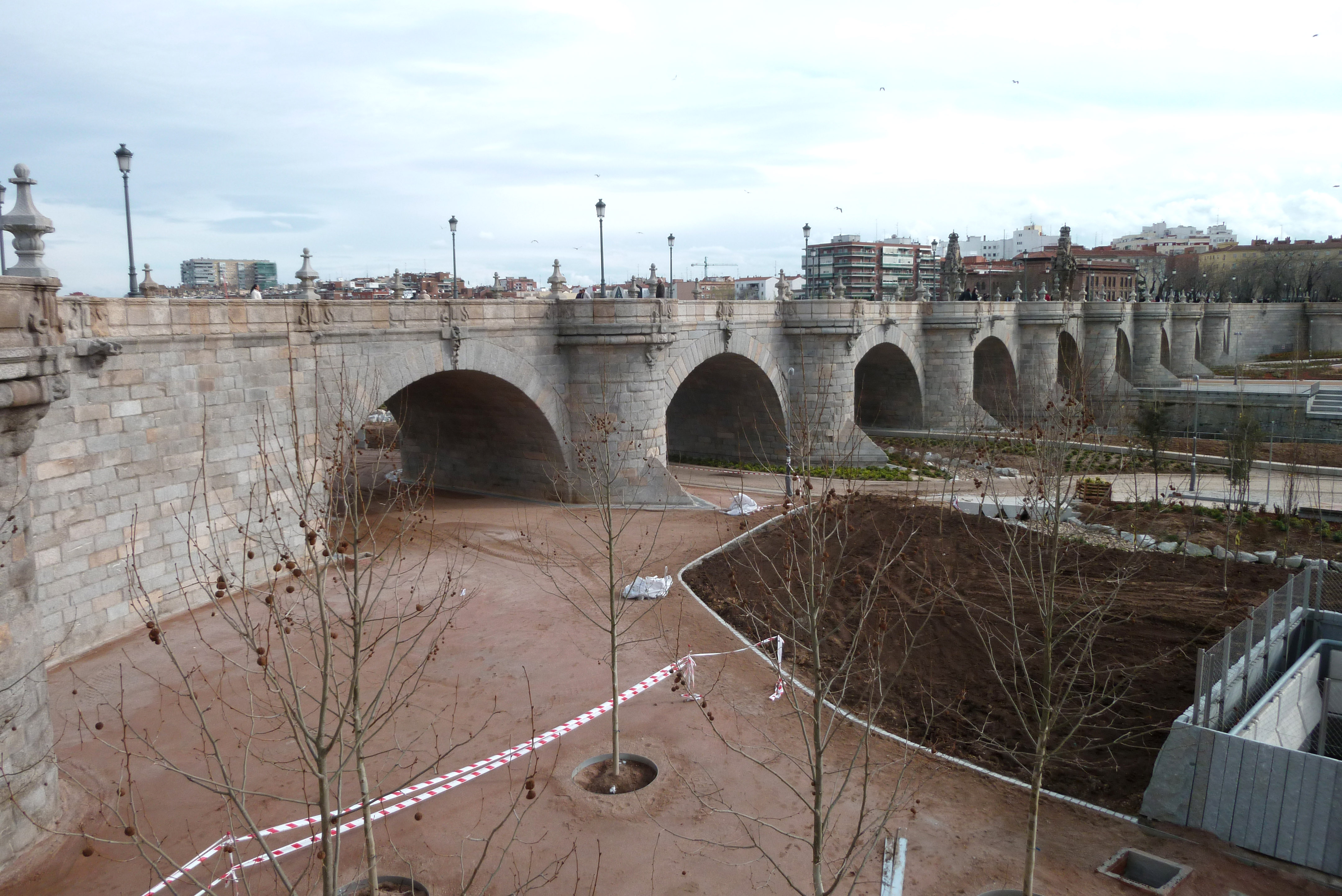 North-western side of Toledo Bridge in Madrid (Spain).